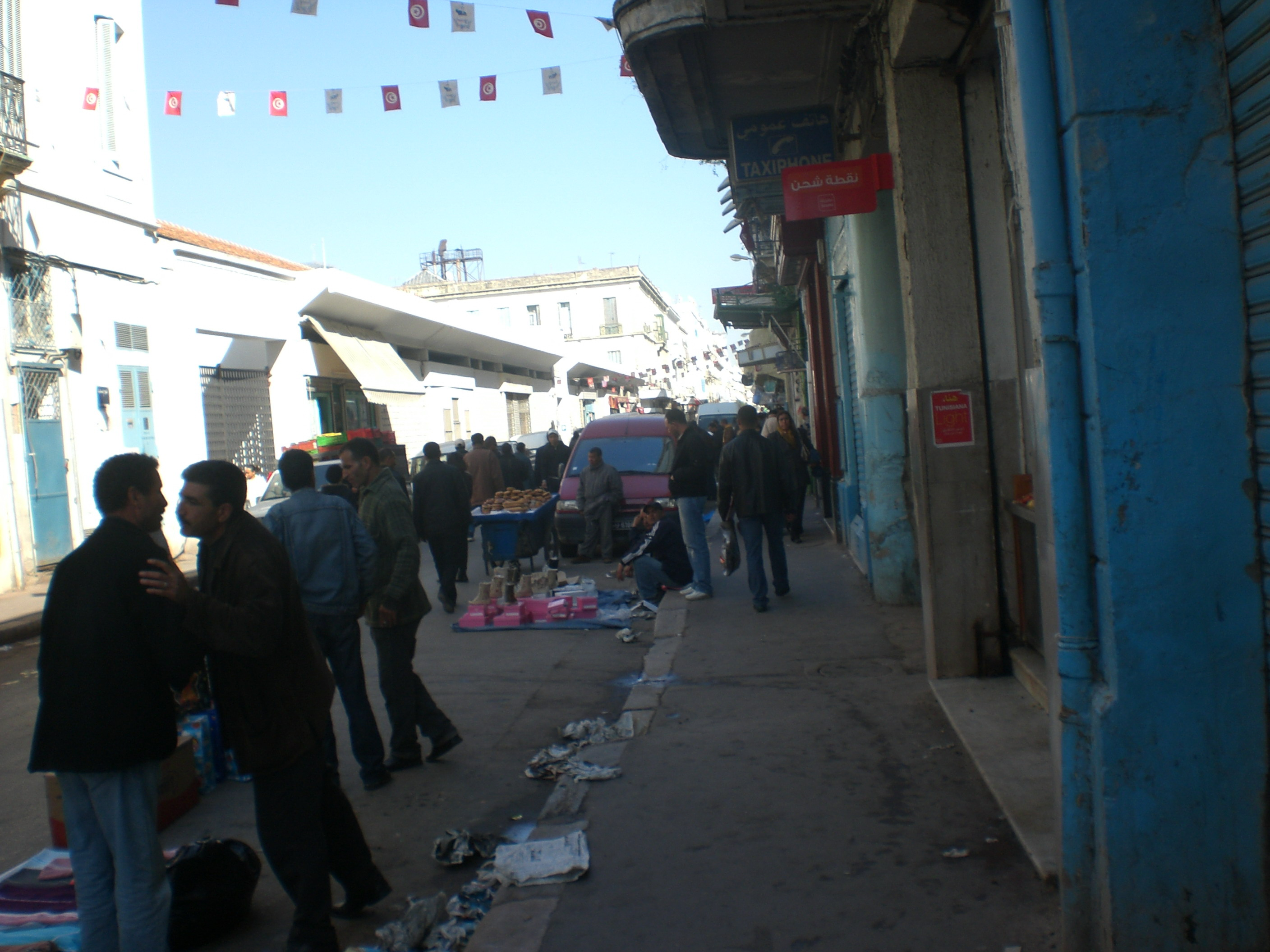 The street called Rue d'Espagne-Tunis